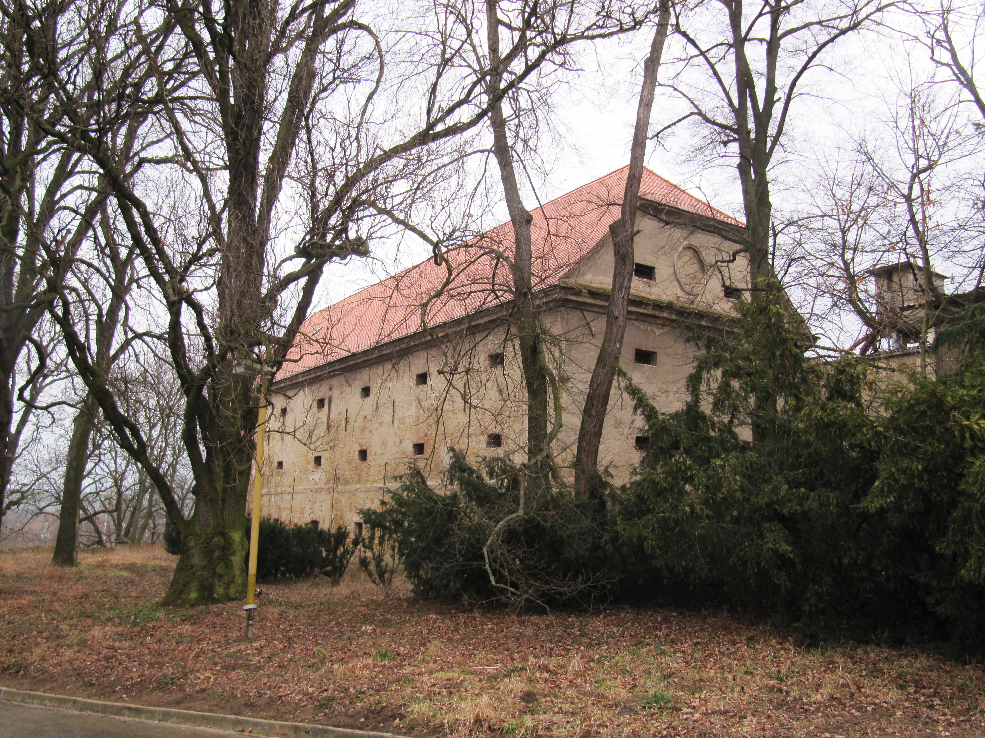 Zdounky , Kroměříž District, Czech Republic. Granary at the castle.